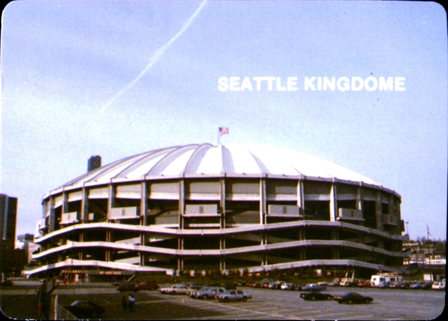 The checklist card of the 1985 Mother's Cookies Seattle Mariners trading cards set. A photograph depicting the exterior of the Seattle Kingdome appears on the front of the card and a checklist of all 28 of the trading cards in the set appears on the back. The card is numbered #28 in the set.